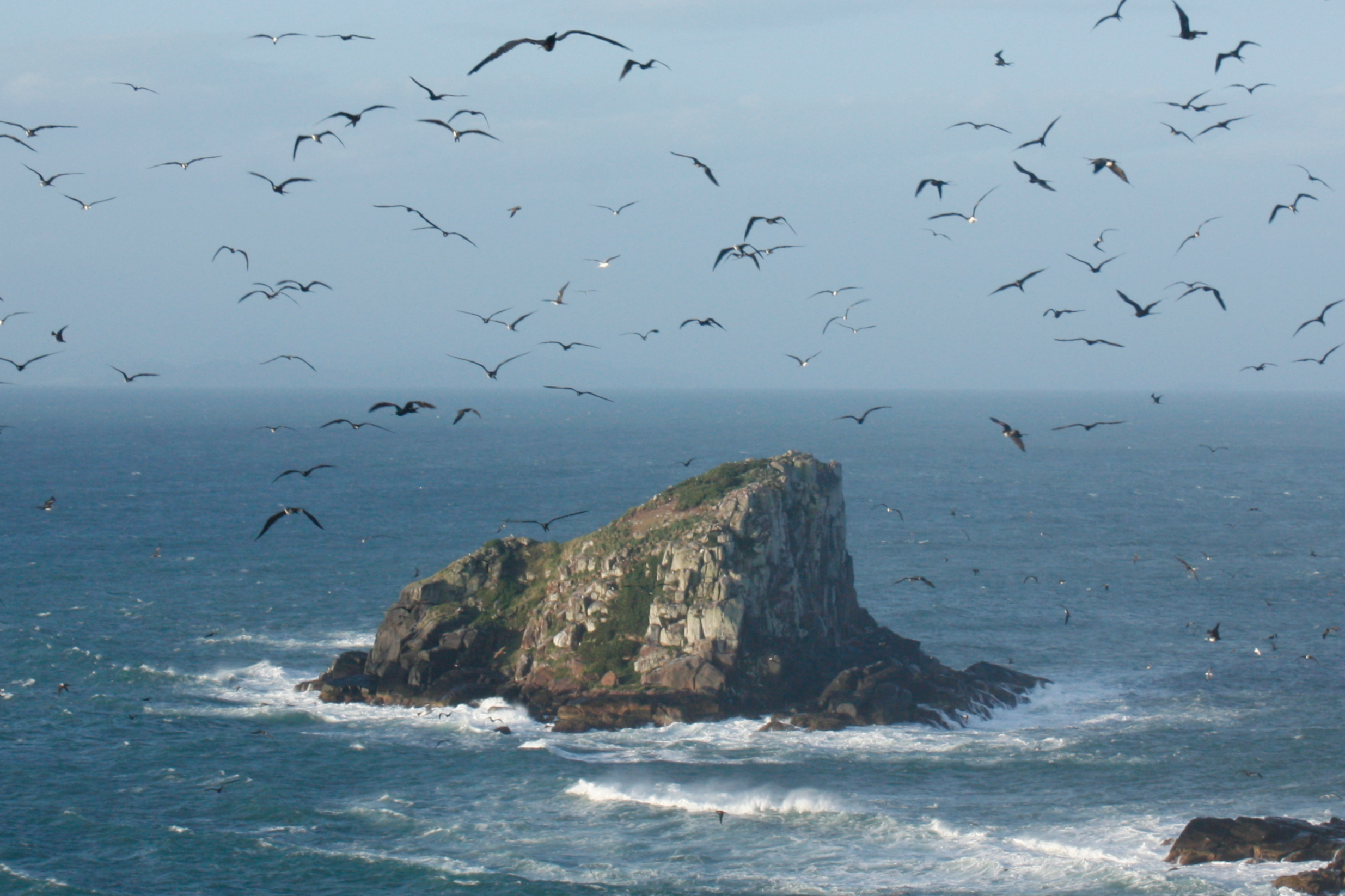 Fregata magnificens in islands of Moleques do Sul. An small archipelago in southern Brazil, in Santa Catarina state. Part of two protected areas, the 'Parque Estadual da Serra do Tabuleiro' and the protected are named as 'APA da Baleia Franca'.